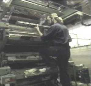 A technician installs a doctor blade which may improve print quality while decreasing ink usage.